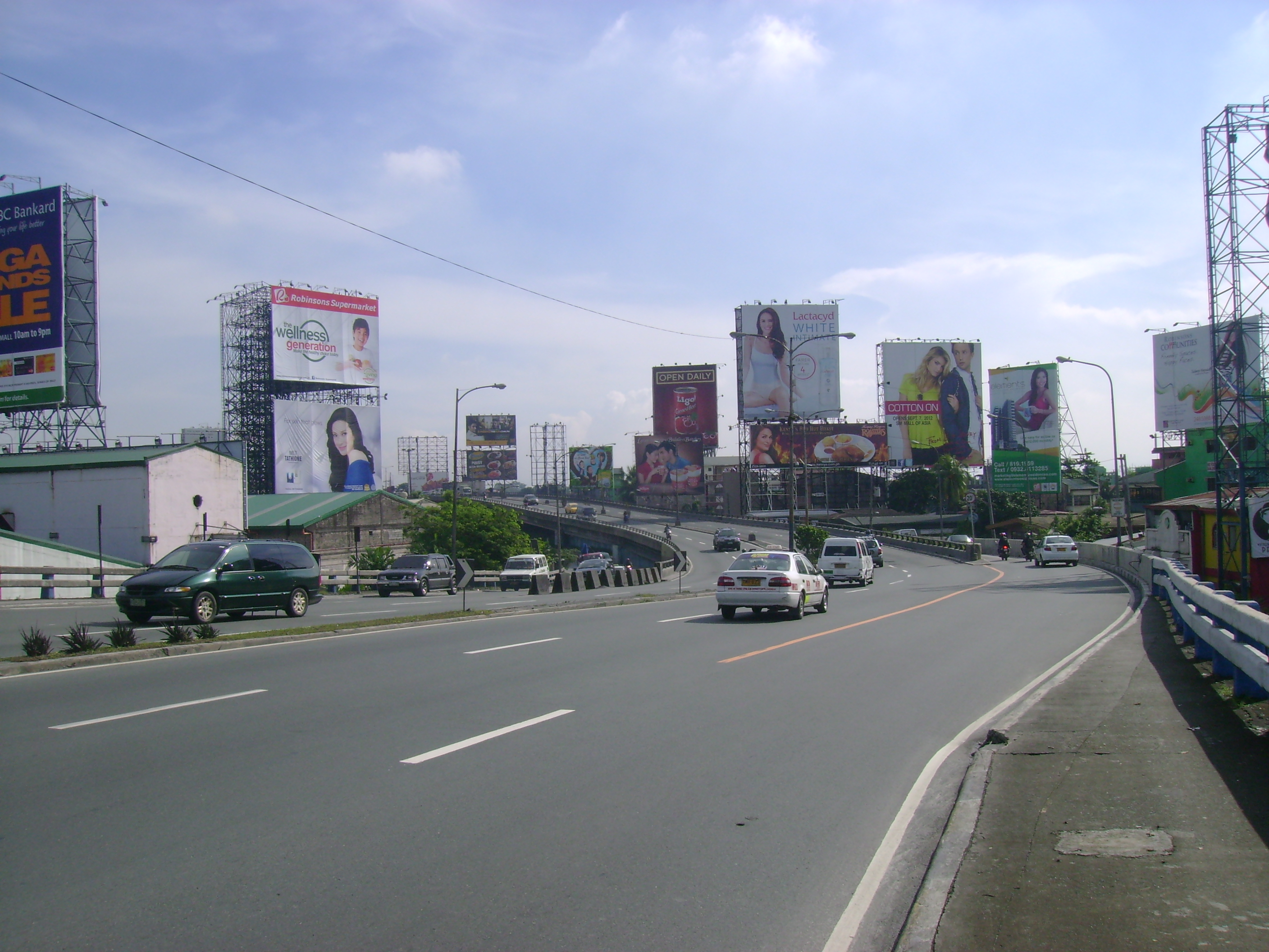 View of C5-Bagong Ilog Flyover in Pasig City